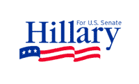 Hillary for Senate